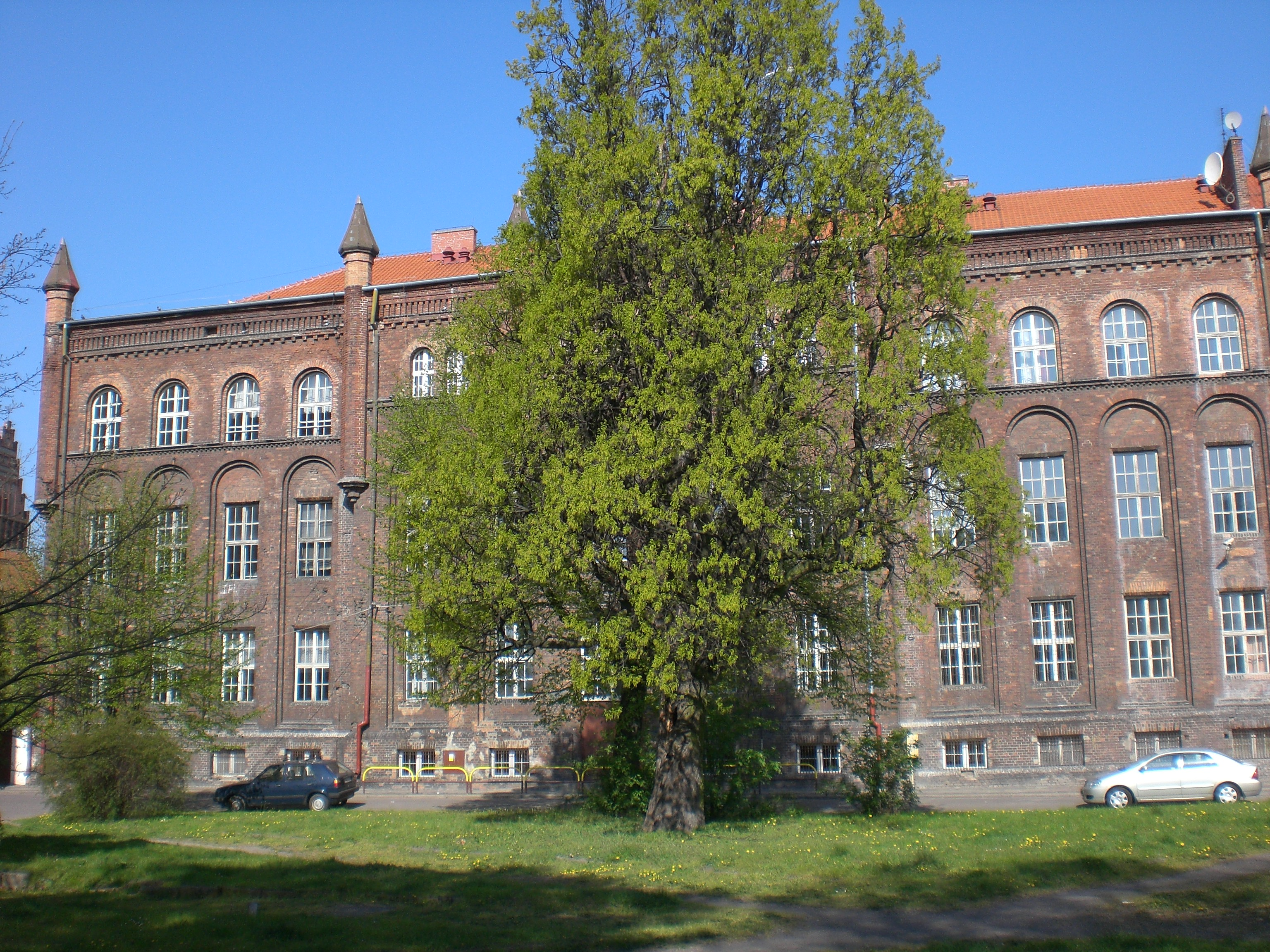 Gdańsk Stare Przedmieście